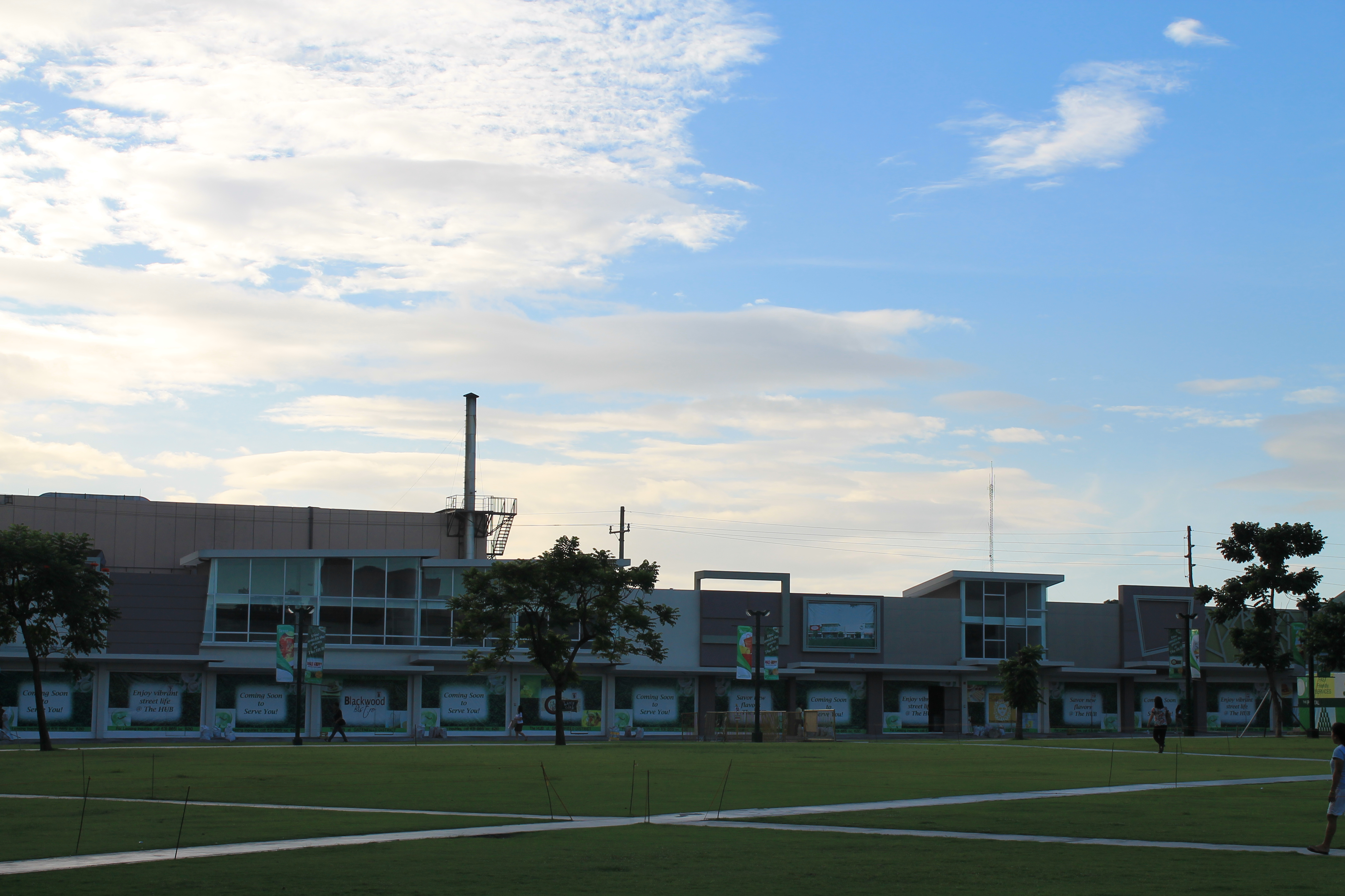 EDSA Central, Greenfield District, Mandaluyong City